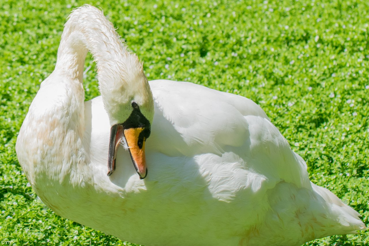 Wildlife and Plants of Israel